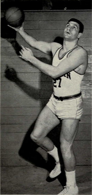 Photograph of Ron Kramer This work is in the public domain because it was published in the United States between 1923 and 1963 and although there may or may not have been a copyright notice, the copyright was not renewed. Unless its author has been dead for the required period, it is copyrighted in the countries or areas that do not apply the rule of the shorter term for US works, such as Canada (50 pma), Mainland China (50 pma, not Hong Kong or Macao), Germany (70 pma), Mexico (100 pma), Switzerland (70 pma), and other countries with individual treaties. See Commons:Hirtle chart for further explanation. This work is in the public domain in the United States because it was published in the United States between 1923 and 1977 without a copyright notice. See Commons:Hirtle chart for further explanation. Note that it may still be copyrighted in jurisdictions that do not apply the rule of the shorter term for US works (depending on the date of the author's death), such as Canada (50 p.m.a.), Mainland China (50 p.m.a., not Hong Kong or Macao), Germany (70 p.m.a.), Mexico (100 p.m.a.), Switzerland (70 p.m.a.), and other countries with individual treaties.